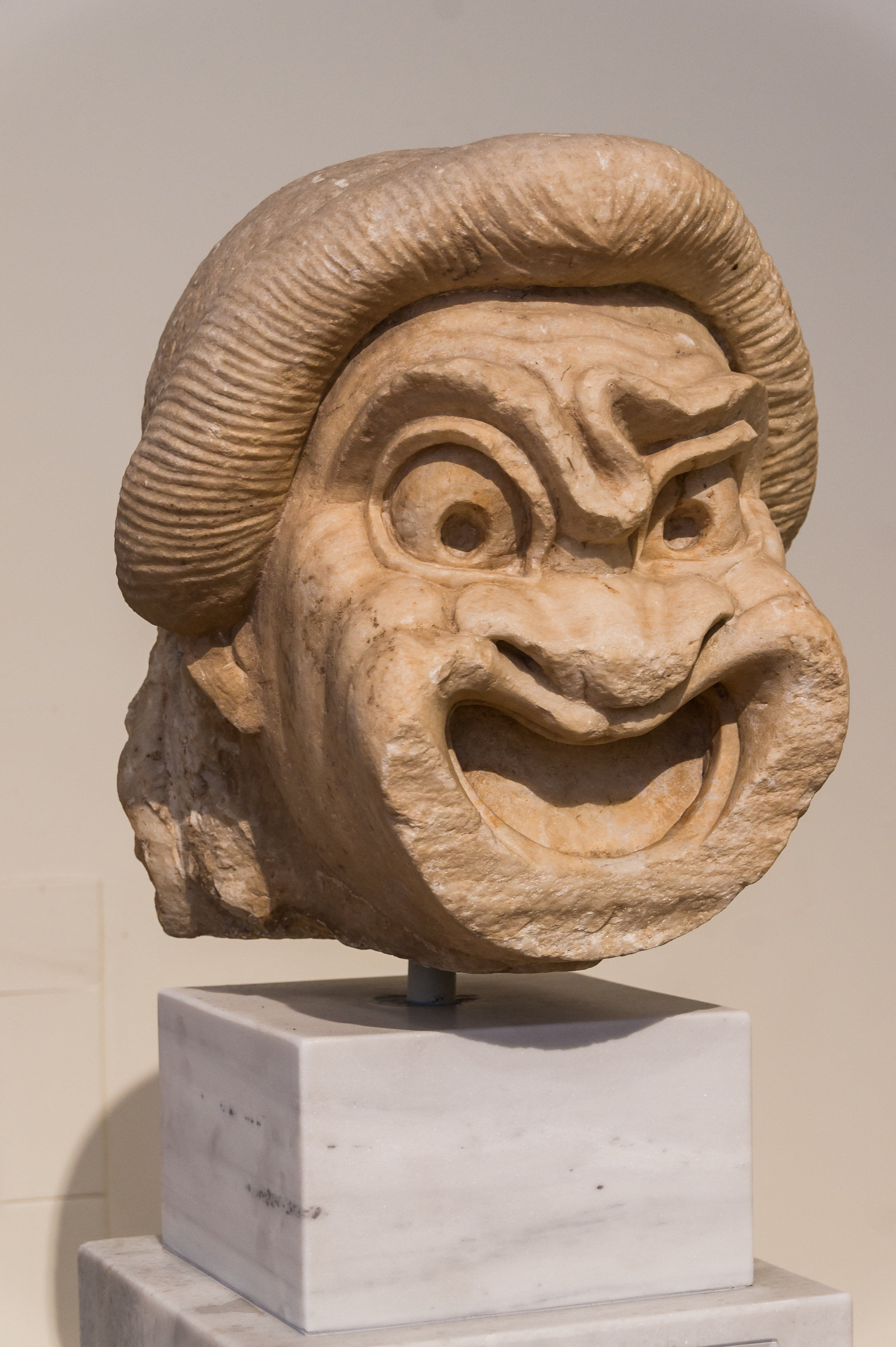 Theatre mask. Pentelic marble. Found near the Dipylon Gate. This could be the "ruler slave", the "first slave" a character of the New Comedy. 2nd-century BCE. n°3373